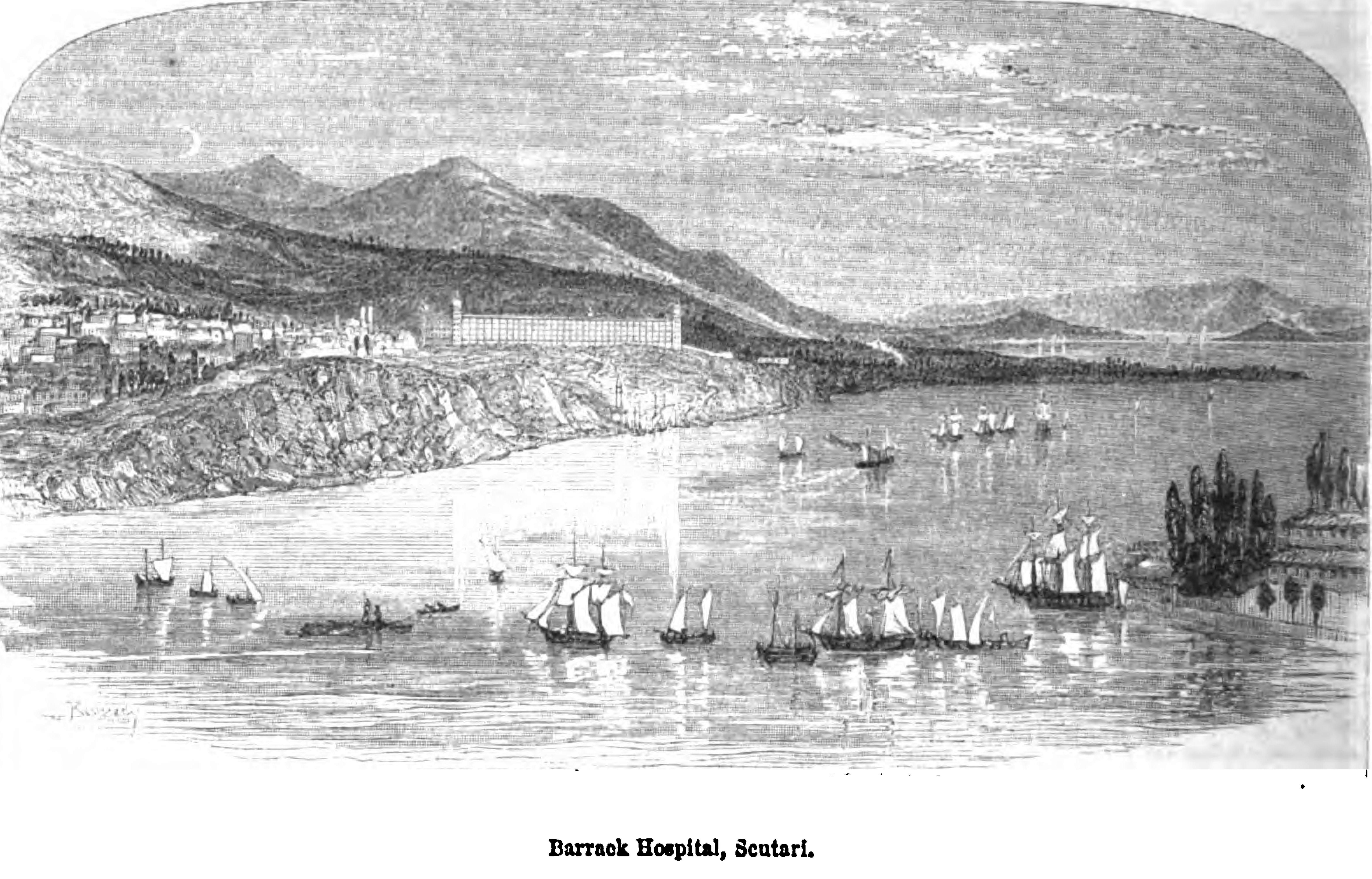 Pictorial history of the Russian war 1854-5-6: with maps, plans, and wood engravings